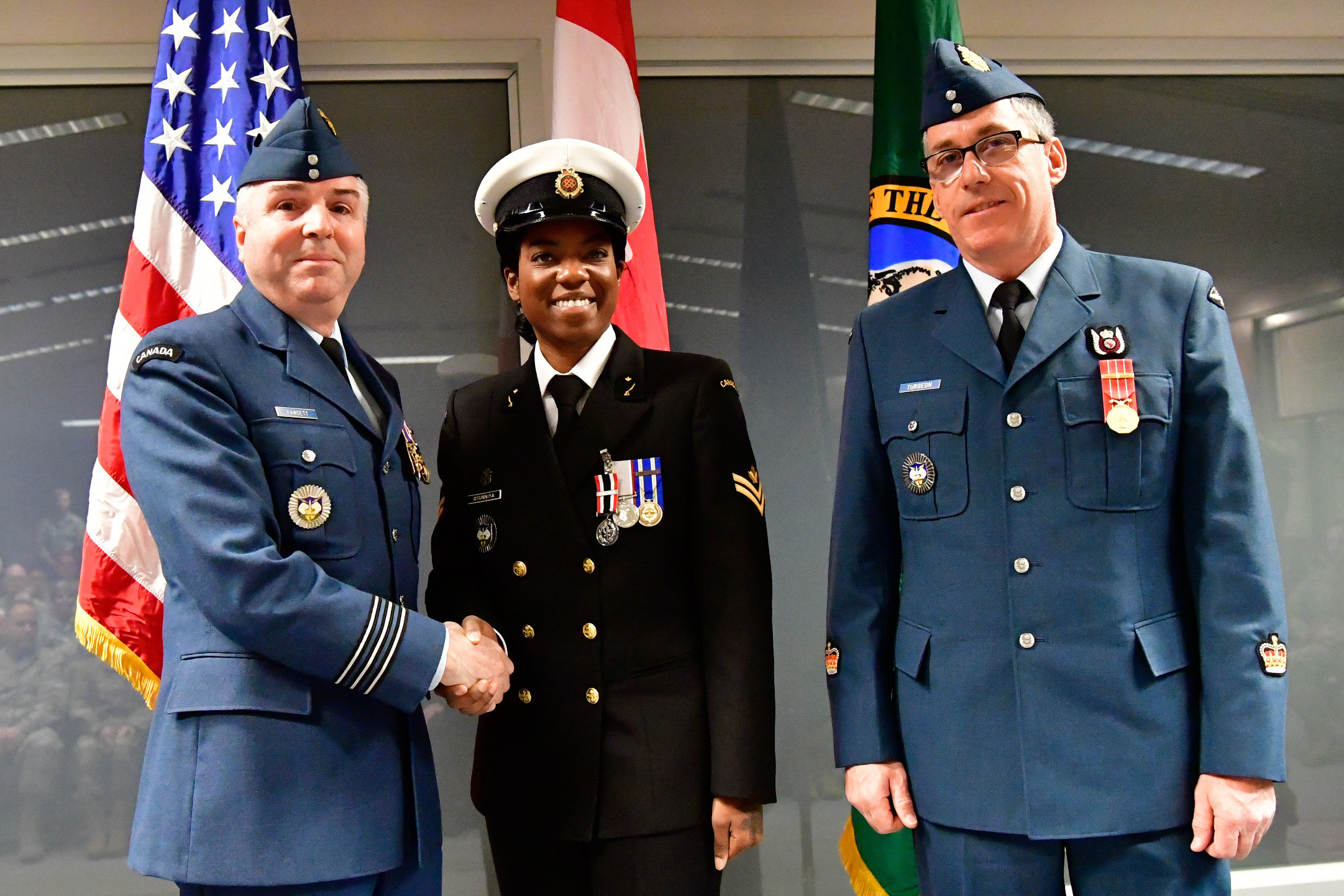 Royal Canadian Navy Master Seaman Malisa Ogunniya (center), Western Air Defense Sector Canadian Detachment chief clerk, is awarded the Canadian Armed Forces Special Service Medal with NATO bar from Lt. Col. Michael Fawcett, WADS Canadian Detachment commander (left), Dec. 1, 2018 at Joint Base Lewis-McChord, Washington. The medal was awarded for Ogunniya’s exceptional service in support of operations while onboard Her Majesty’s Canadian Ship Winnipeg from July 2015 through January 2016. HMCS Winnipeg conducted operations under the standing NATO Maritime Group Two as part of Operation Reassurance, NATO’s mission to build maritime situationalawareness in order to detect, deter and disrupt terrorism in the Mediterranean Sea. The Special Service Medal was created to recognize members of the Canadian Armed Forces who have performed a service determined to be under exceptional circumstances, in a clearly defined locality for a specified duration. The SSM is always issued with a Bar that specifies the special service being recognized, each bar having its own criteria. (U.S. Air National Guard photo by Maj. Kimberly D. Burke)